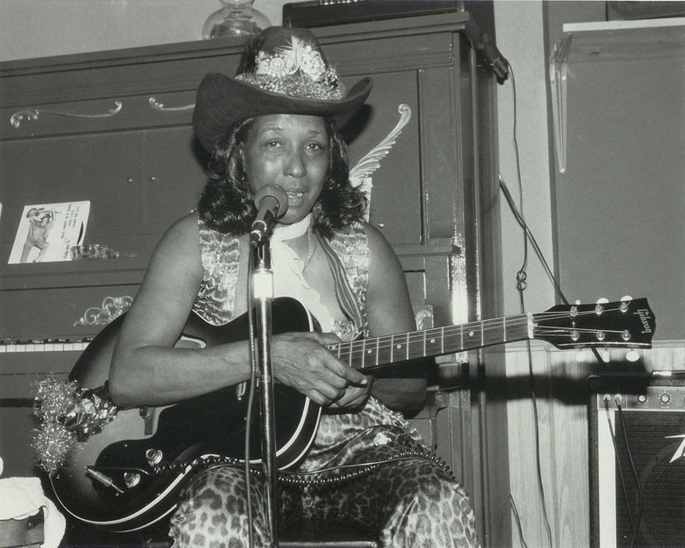 Photo by Lisa McGaughran depicting Jessie Mae Hemphill onstage talking to the audience between songs at a Beale Street venue (either a restaurant or The Center for Southern Folklore itself, which at one time was supposedly located on Beale) during a music festival that was held throughout the Beale Street area indoor and outdoor venues that year. I checked with the Center for Southern Folklore about the location/timing of the performance and think the event was a performance held at a 1980s Memphis Music and Heritage Festival, which The Center for Southern Folklore in Memphis holds annually around Labor Day. I think it was held in the mid to late 1980s period. I'm trying to put this photo summary together the way I've seen it done on other photos since I'm told it's better if I upload it myself. I think I've done it correctly. I am the photographer and copyright owner, and I uploaded this myself with Creative Commons by Share Alike 2.5 licensing today. I will make sure the Permissions people know. If I ever pin down any more information on the exact date for my photo, I will try to update it.